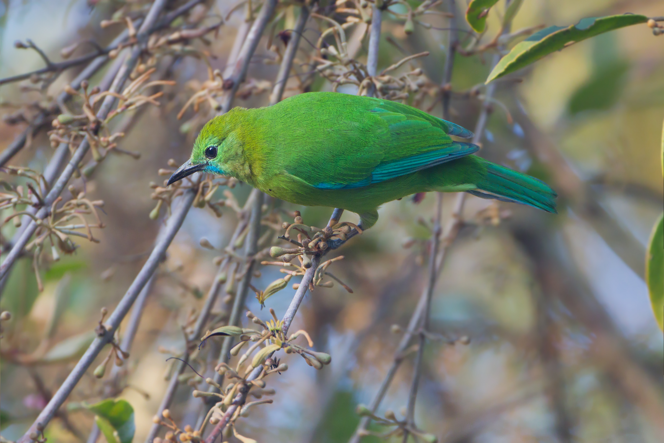 Blue-winged Leafbird (Chloropsis cochinchinensis) female, Khao Yai National Park, Nakhon Ratchasima, Thailand